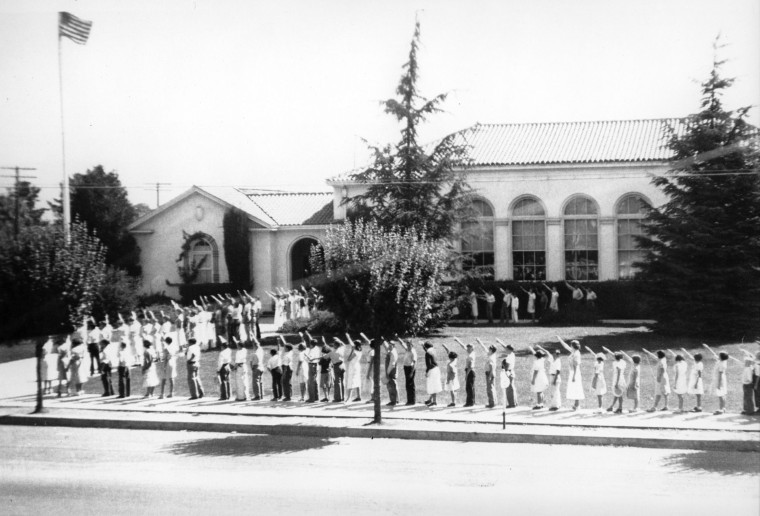 Children salute the American flag in front of the Morgan Hill School in the 1930s. This elementary school was located at the northeast corner of Monterey Street and East Dunne Avenue in Morgan Hill, California. In the early 2000s the Morgan Hill Unified School District sold the building to Stratford School, an independent private school, which moved it piecemeal to 410 Llagas Road at the northwest end of town, where it was renovated and became a preschool and elementary institution of learning. The Morgan Hill Community and Cultural Center was built in its place.